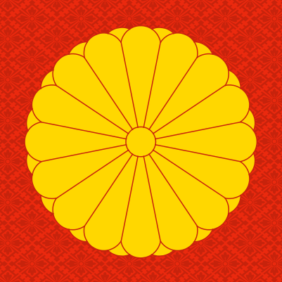 self made mon-crest of the imperial family of Japan